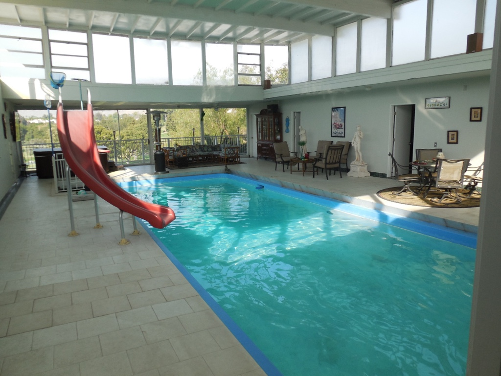 Swimming Pool Room in the Nielsen Pool House